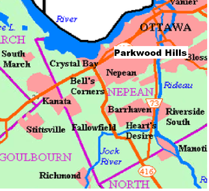 Originally uploaded to en wiki as Image:Newottawamap.png by creator User:Earl Andrew on March 16, 2005 Released by author to the public domain.